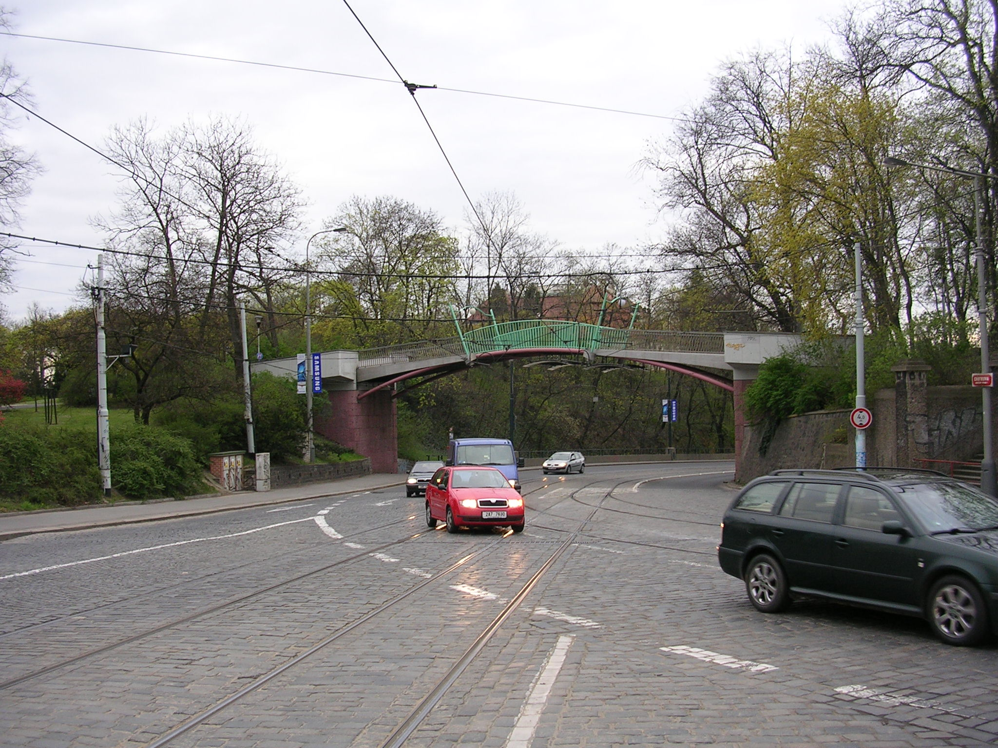 Hradčany, Prague, the Czech Republic.